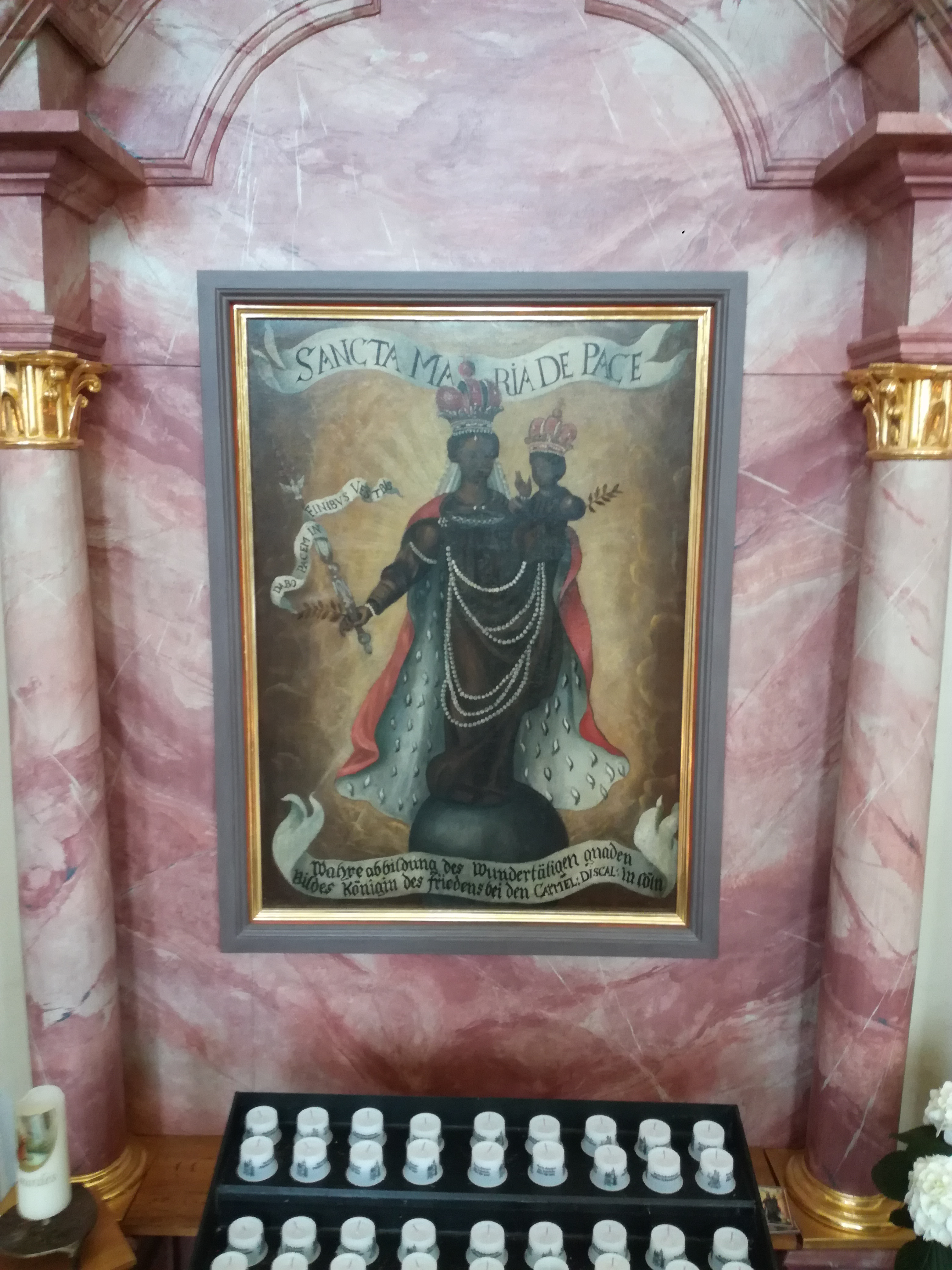 Devotional picture Maria de Pace. Text of german caption: True depiction of the Miraculous Statue Queen of Peace at the Discalced Carmelite (Nuns) of Cologne